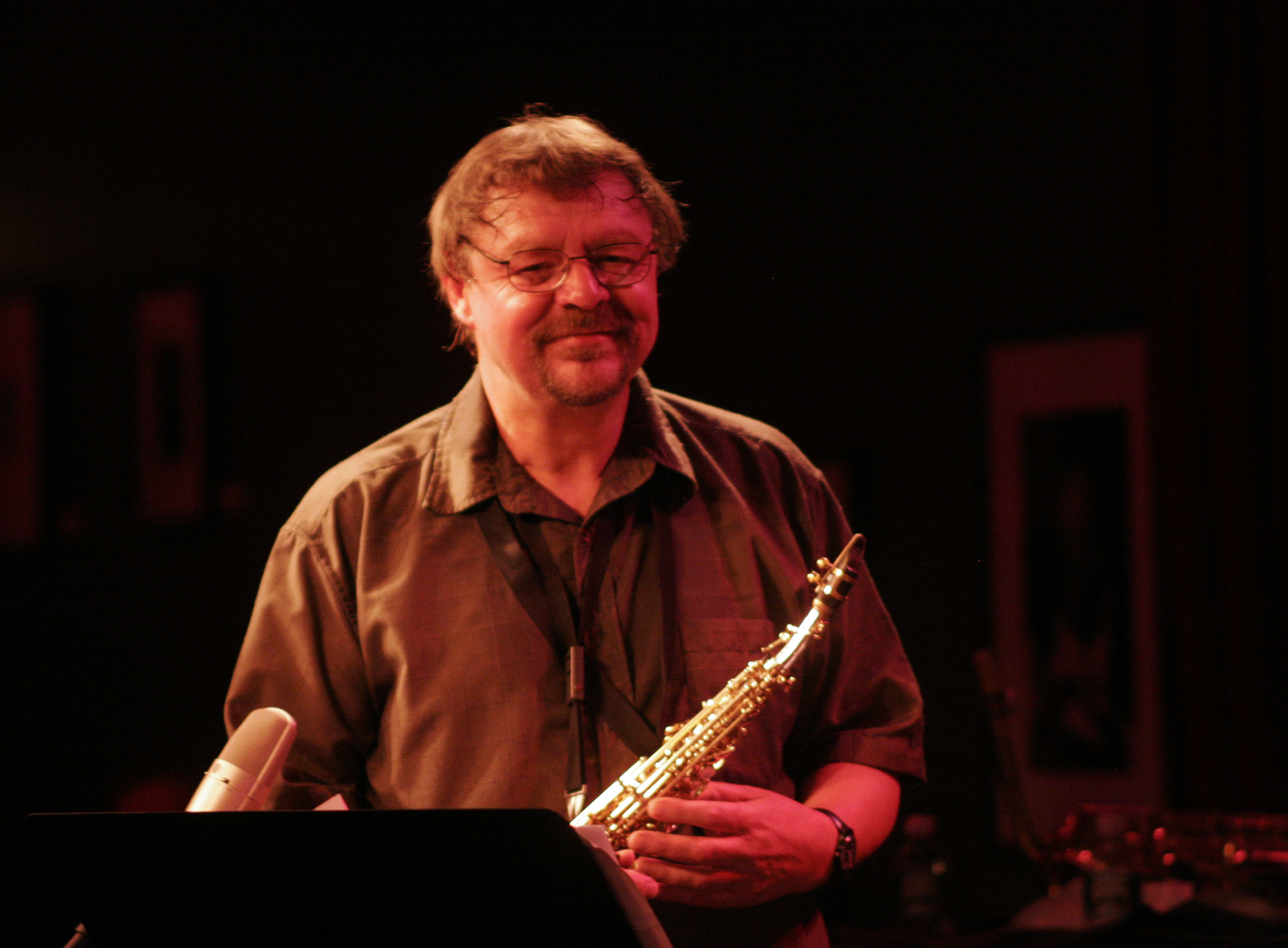 John Surman-- Birdland; September 2, 2009 Photo: Claire Stefani